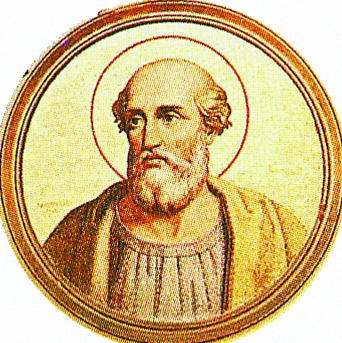 Portrait of Pope Hyginus un the Basilica of Saint Paul Outside the Walls, Rome